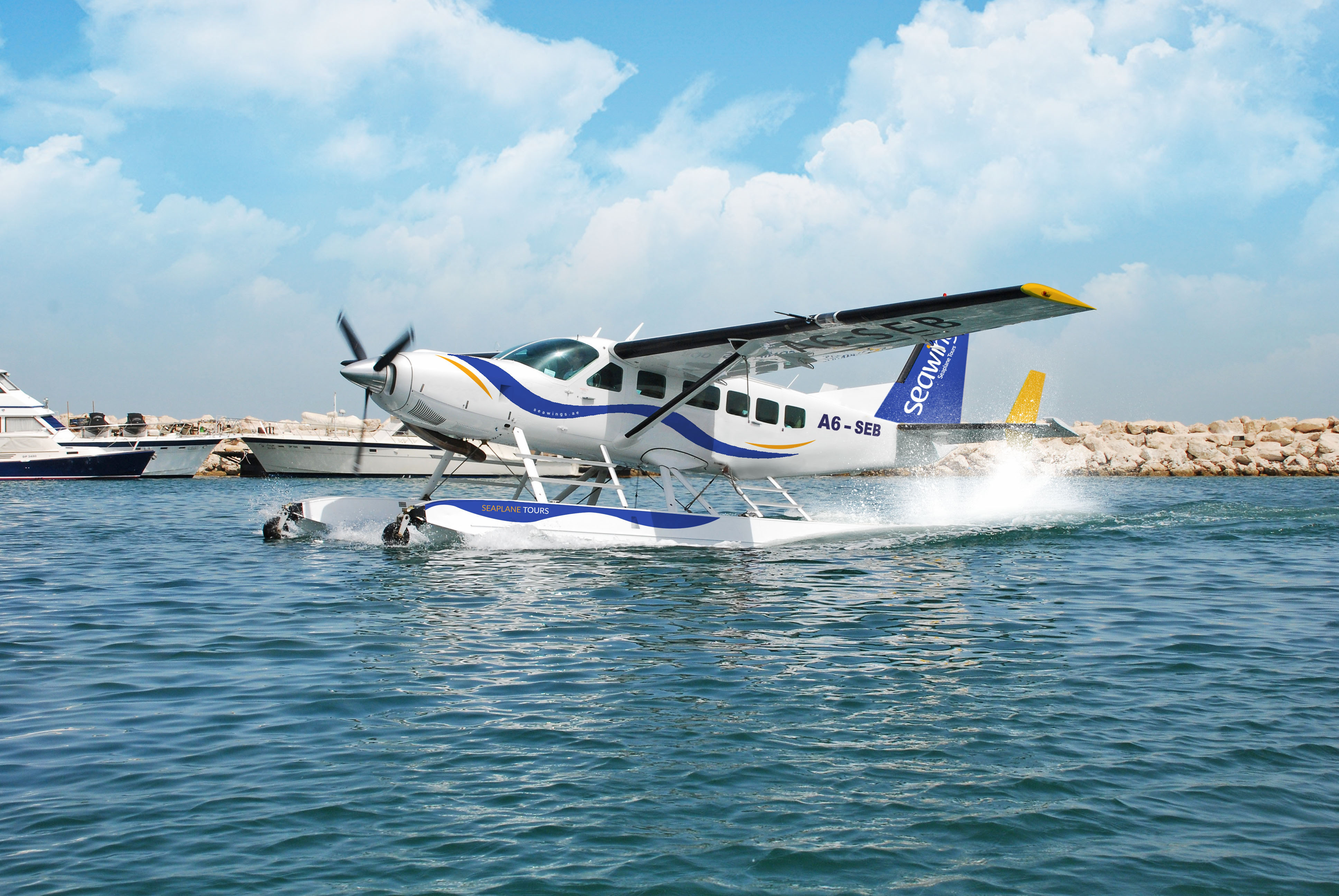 Seawings Seaplane at Jebel Ali